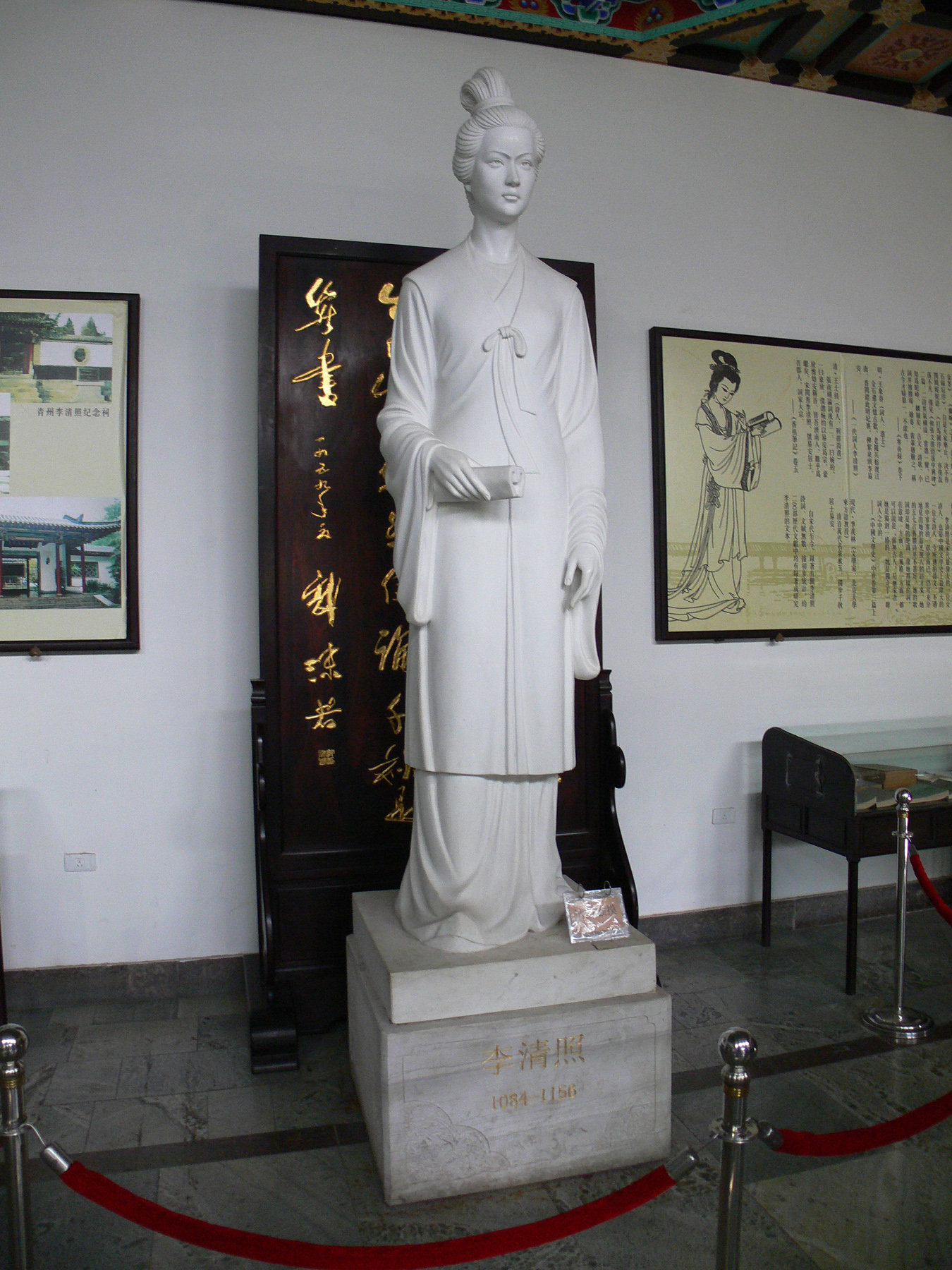 Li Qingzhao statue in Li Qingzhao Memorial, Jinan "Li Qingzhao 1084-1156"